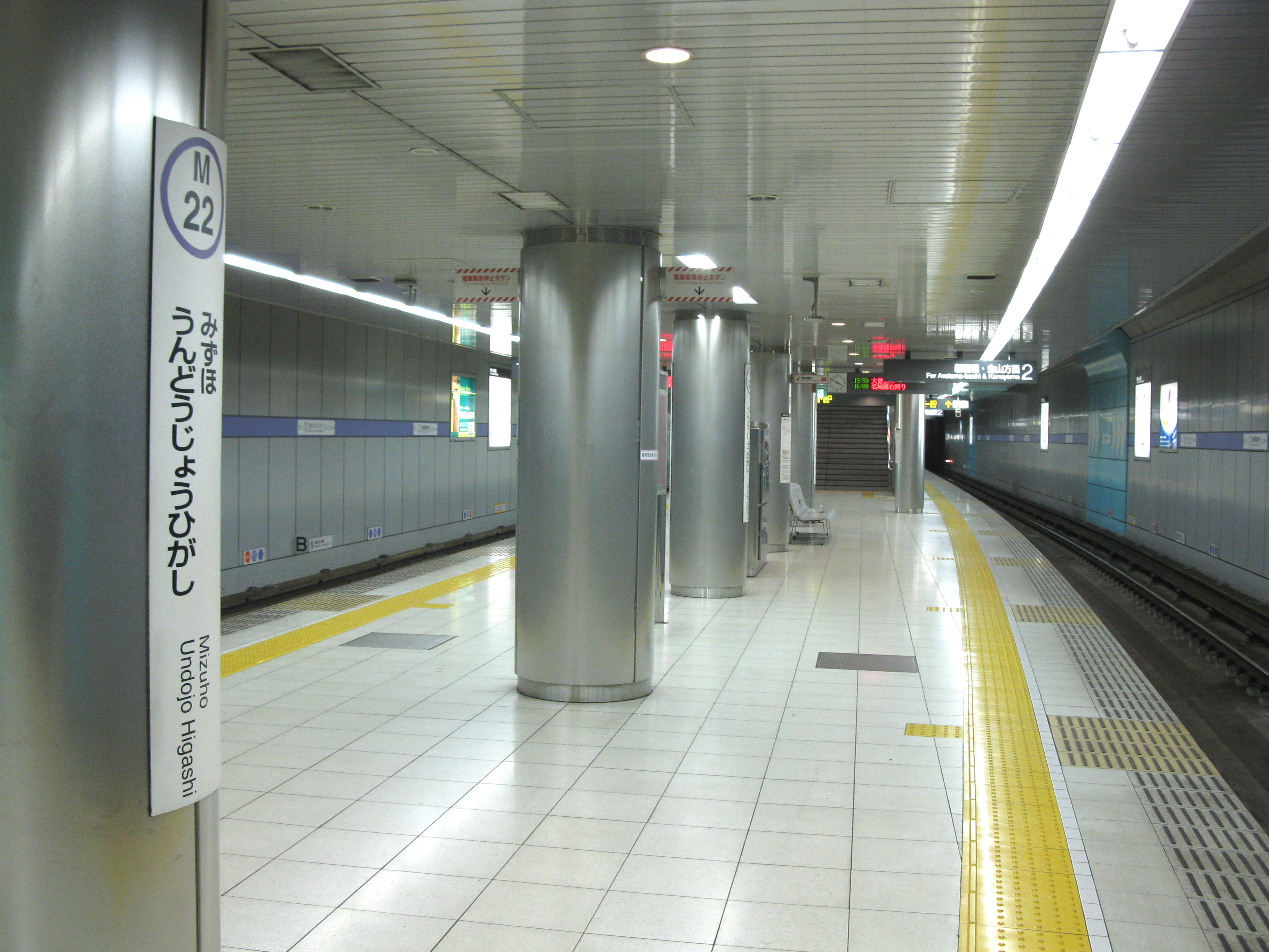 Mizuho Undōjō Higashi Station platform (Nagoya Municipal Subway Meijō Line)